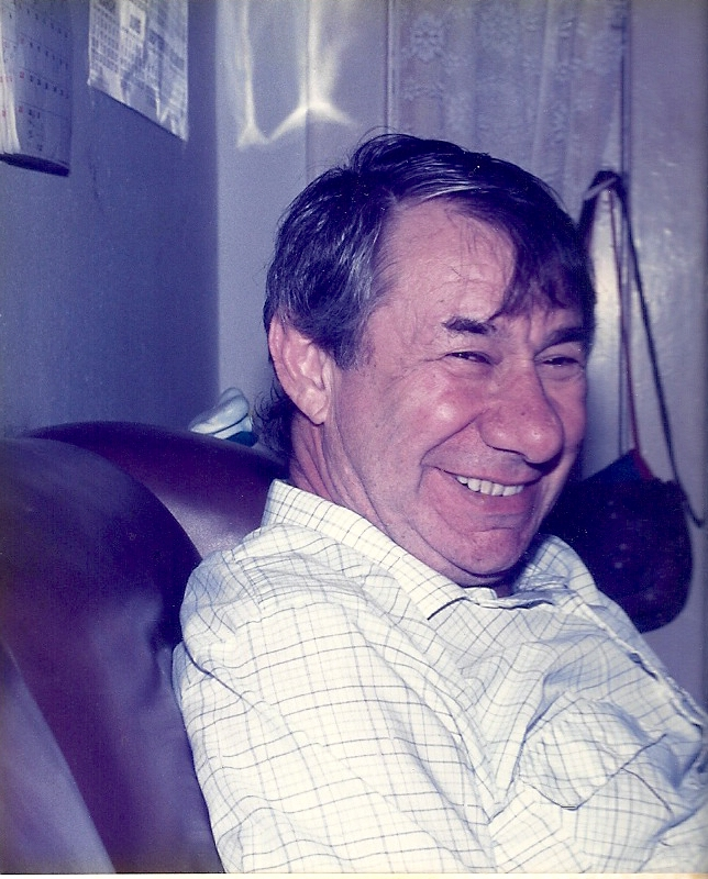 at home